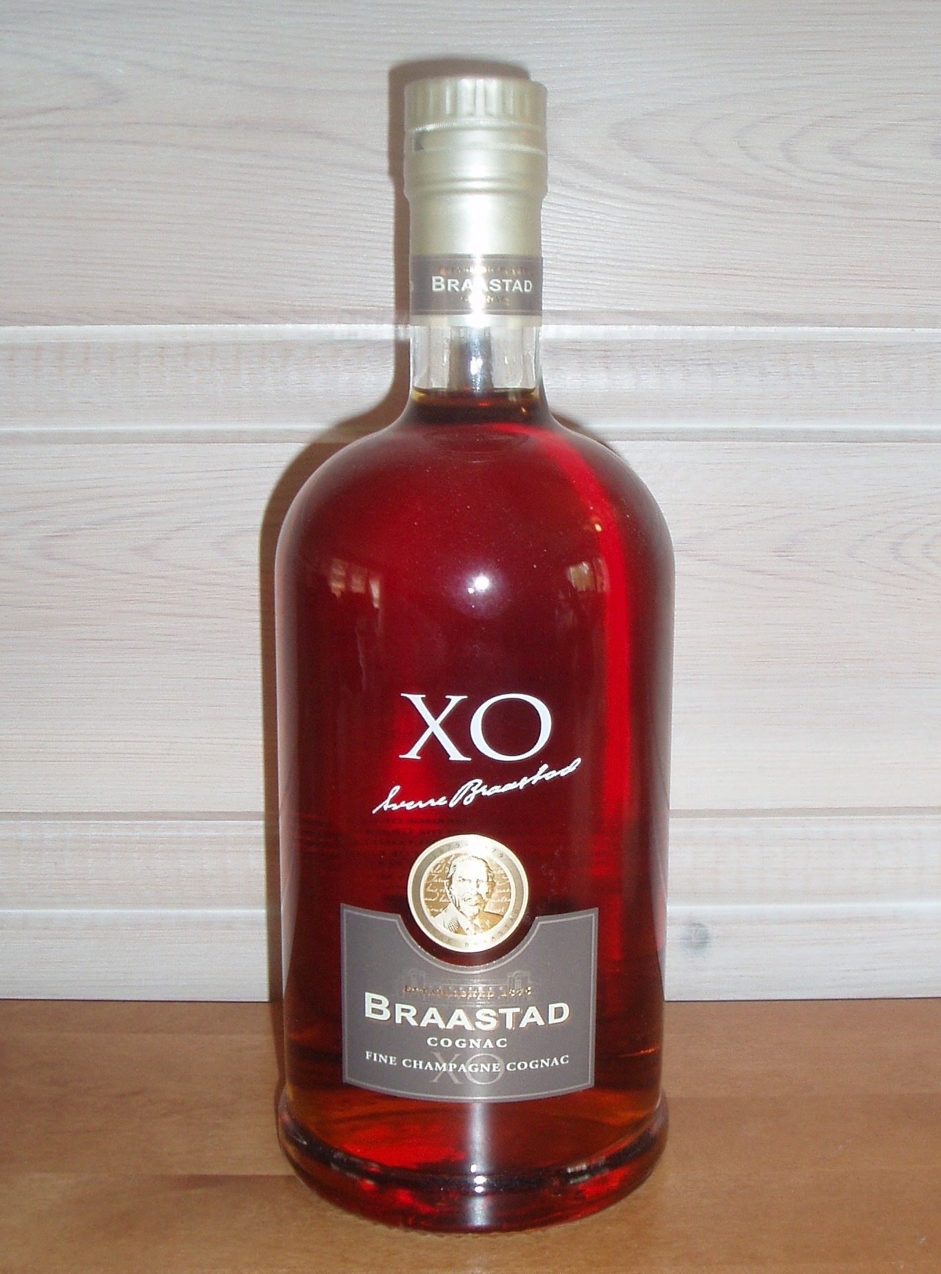 1 litre bottle of Braastad XO cognac